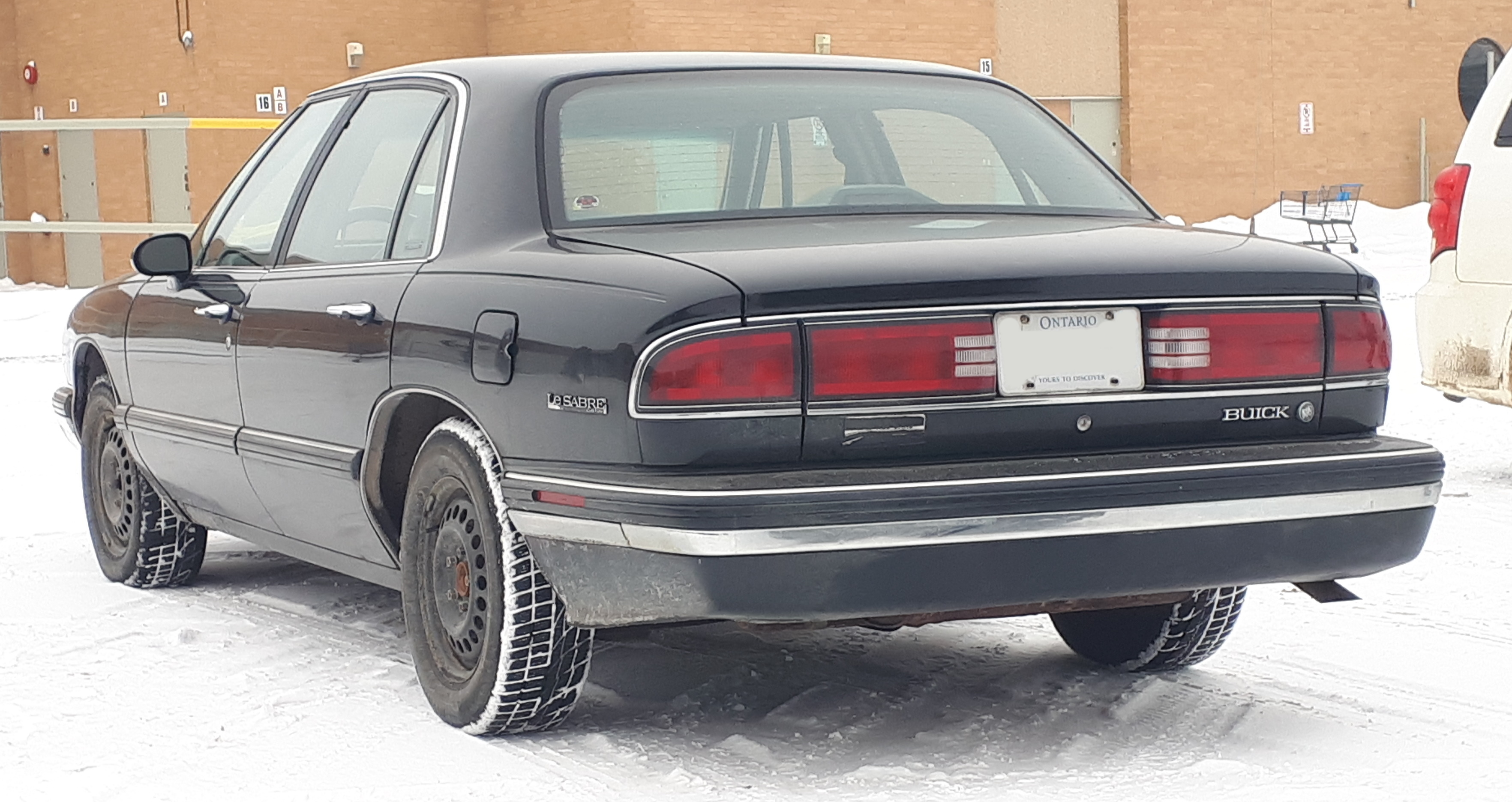 1992 - 1996 Buick LeSabre Custom photographed in Sault Ste. Marie, Ontario, Canada